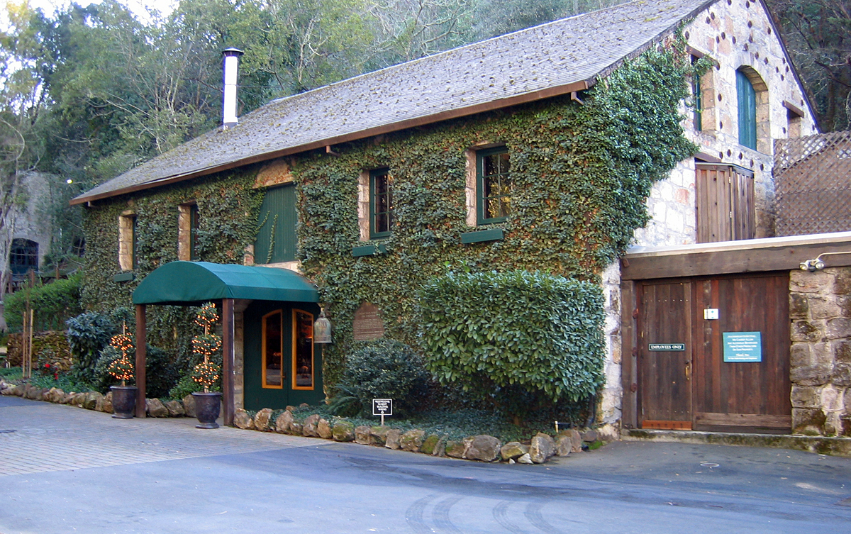 Buena Vista Winery, 18000 Old Winery Rd. Sonoma